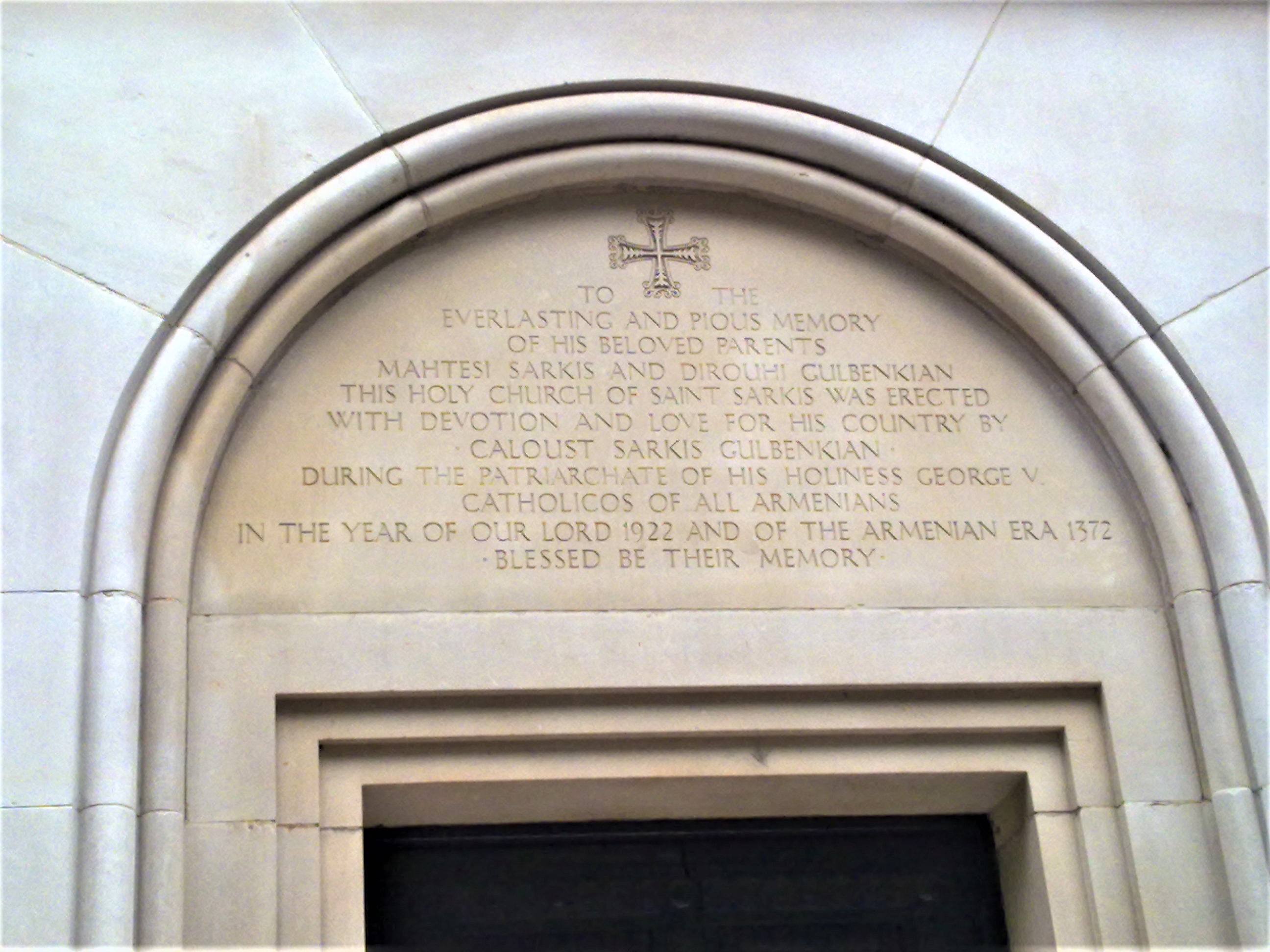 Saint Sargis Armenian church in London